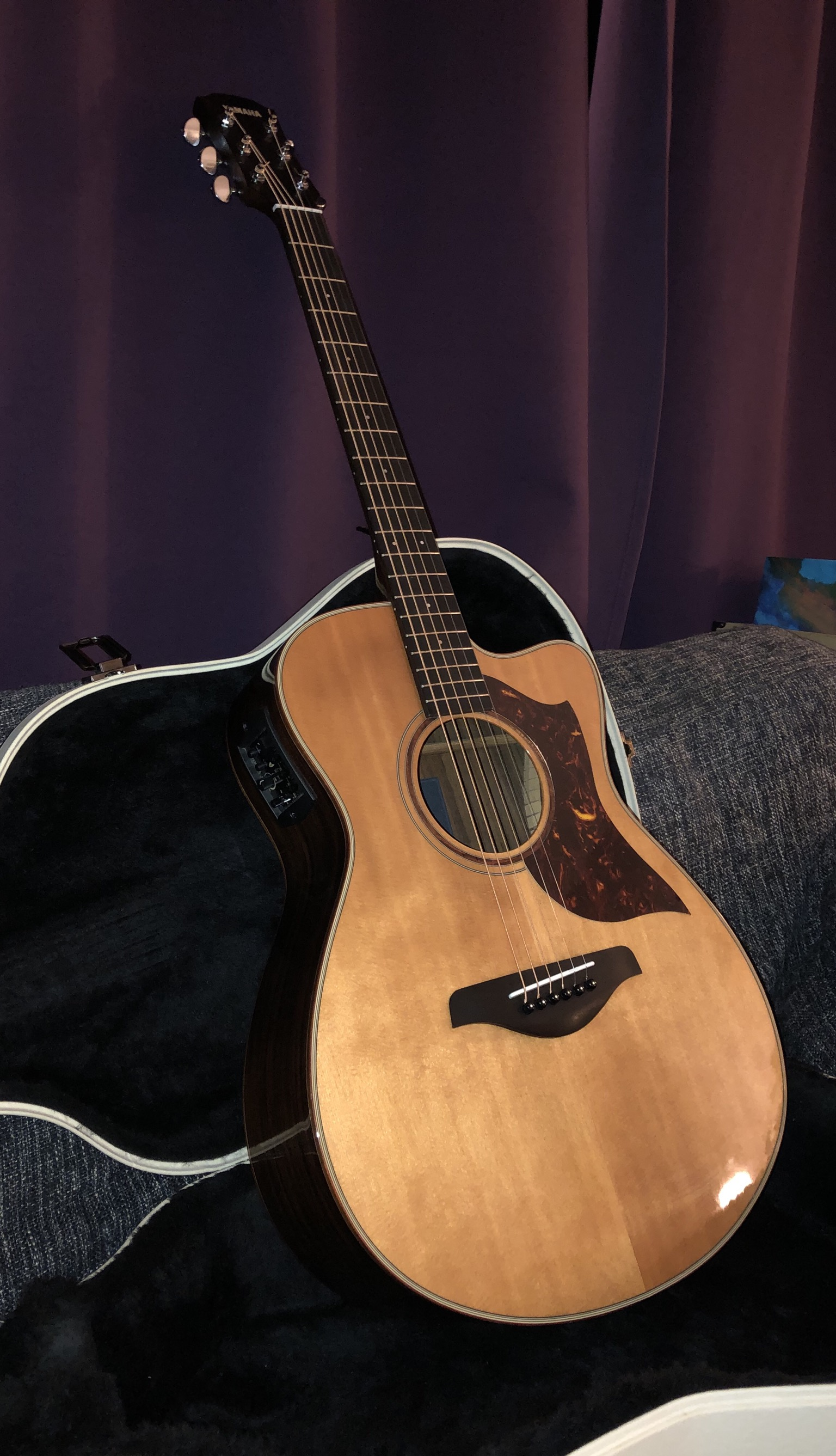 A Yamaha AC3R all solid electric acoustic guitar with a cutaway derived from a Martin Orchestra Model. Spruce top Rosewood back and sides Mahogany neck Ebony fretboard